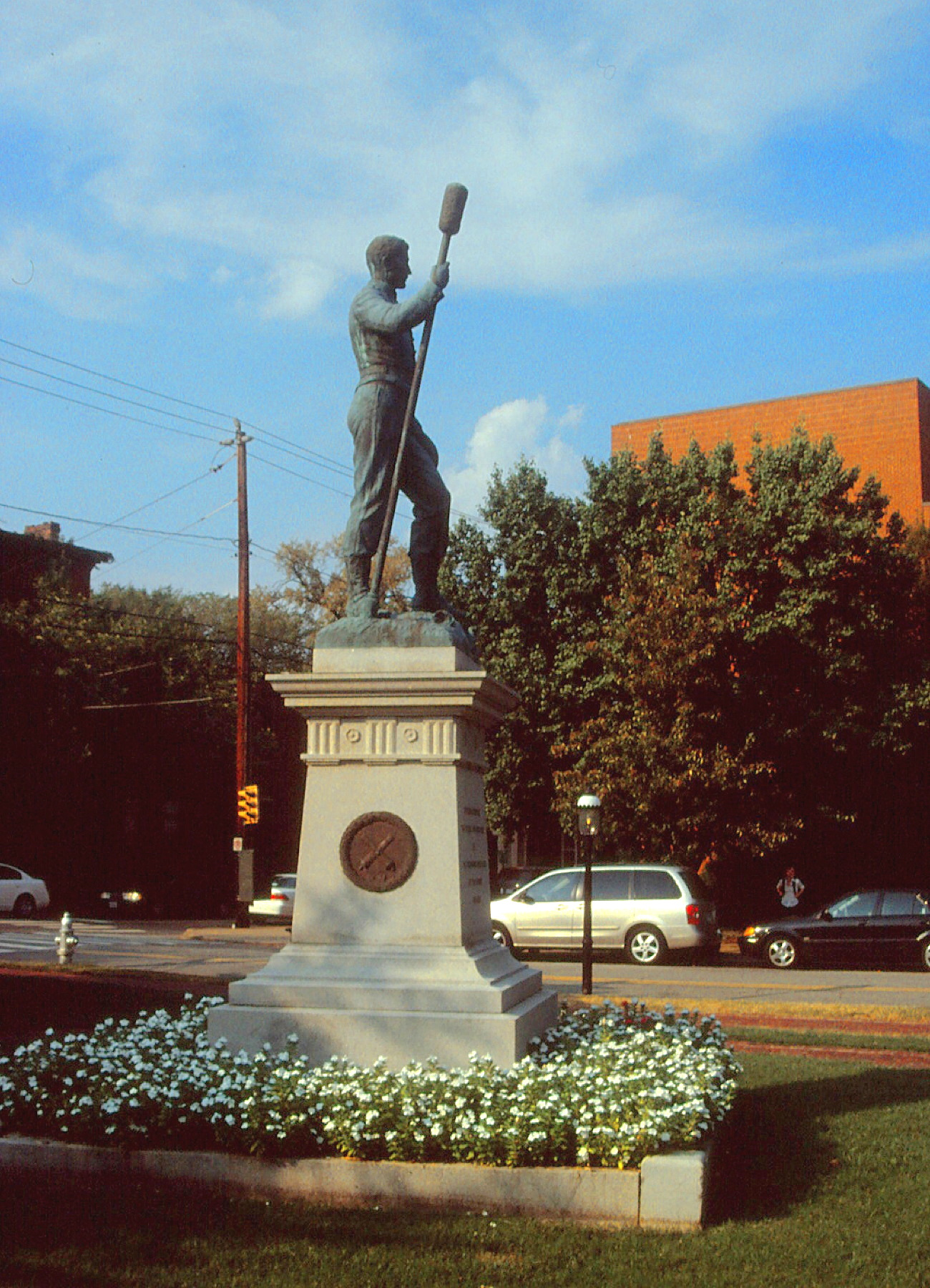 Howitzer Monument, Caspar Buber, scuptor, Richmond VA, USA 1892